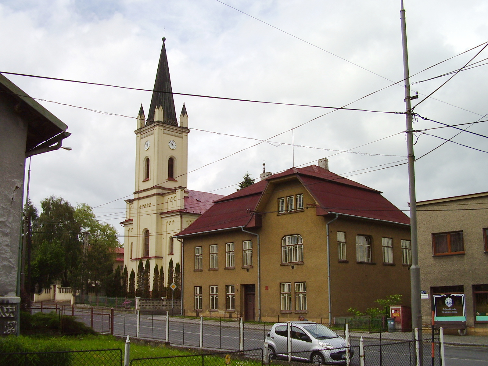 Roman Catholic Mary Magdalene Church in Dětmarovice, Czech Republic